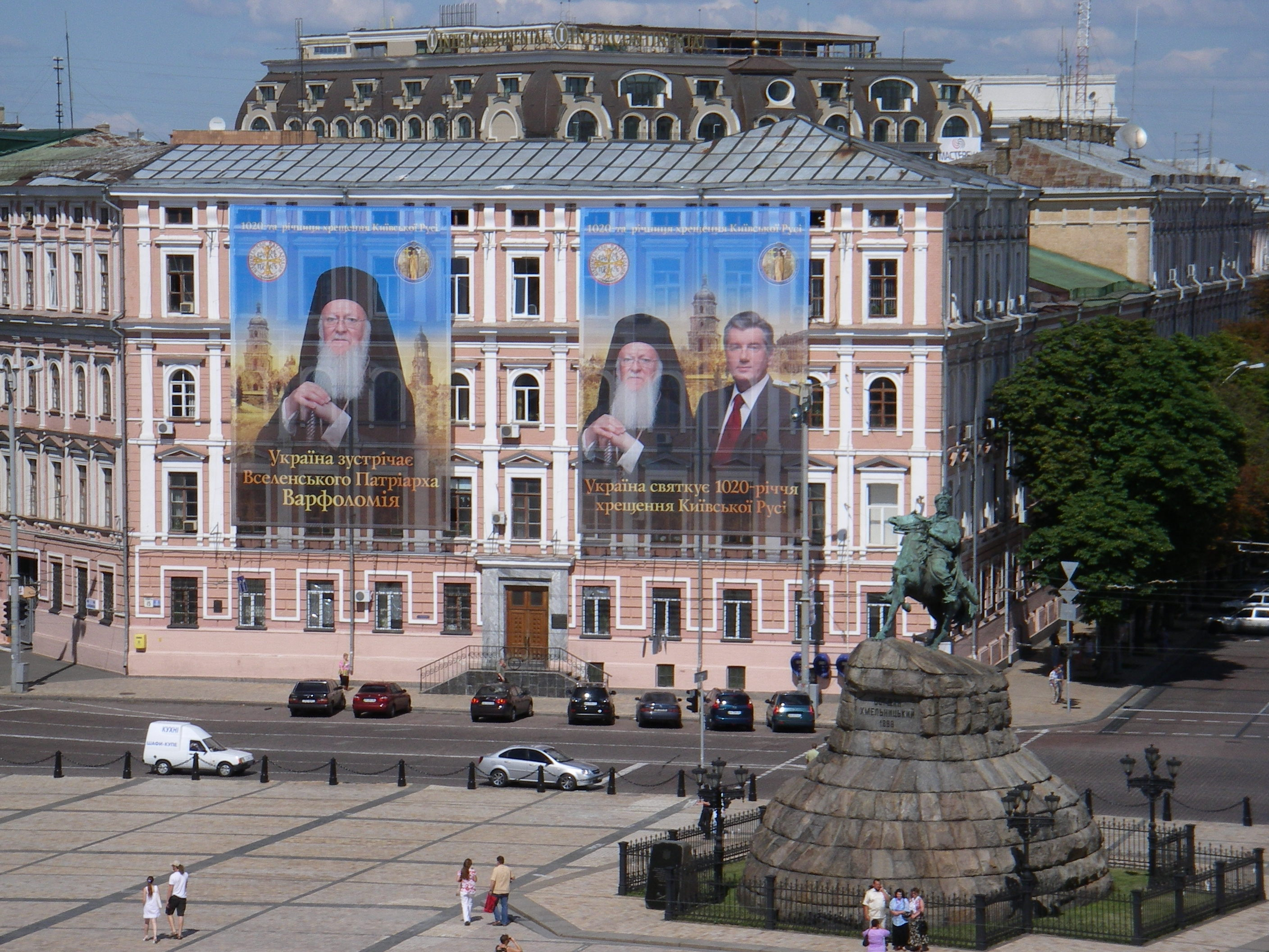 Kiev greeted the Ecumenical Patriarch with posters mounted on every pole along the highway connecting the airport to the city, reading, "Ukraine welcomes Patriarch Bartholomew."